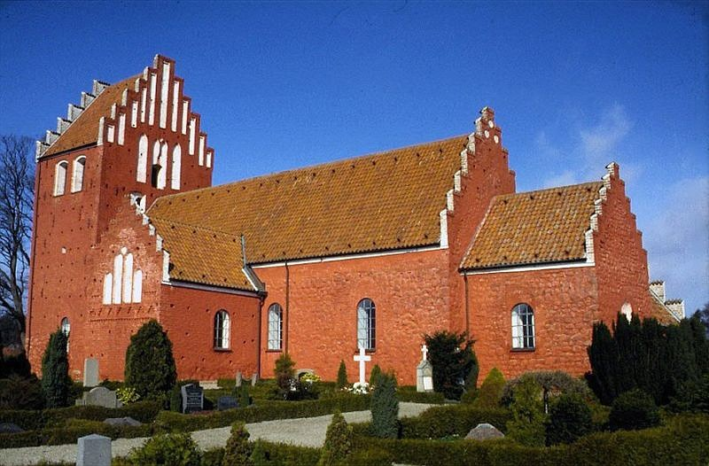 Bregninge Kirke (church) in Kalundborg Kommune